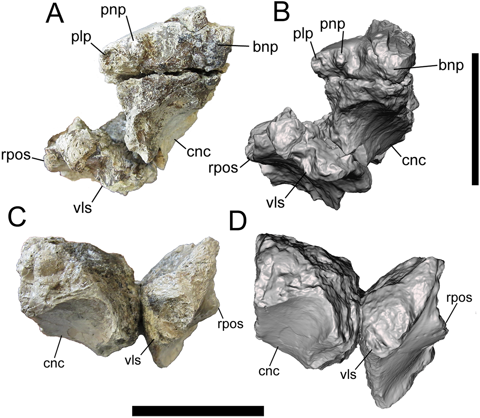 Part of the holotype of Dynamoterror dynastes McDonald et al. 2018 (UMNH VP 28348): Photographs and 3-D models of right (A, B) and left (C, D) frontals in rostral view. Abbreviations: bnp, base of nasal process; cnc, caudal extent of nasal cavity; plp, prefrontolacrimal process; pnp, prefrontonasal process; rpos, rostral part of postorbital suture; vls, ventrolateral part of lacrimal suture. Scale bars equal five cm.